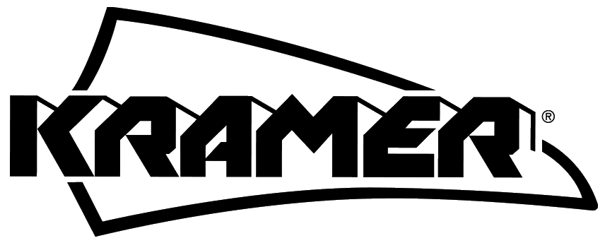 Logo of Kramer Guitars, a company of the USA.